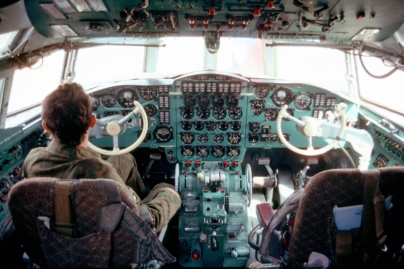 The Ilyushin IL-38 was one the highlights at Fairford in July 1996. It's appearance was reason enough to cross the North Sea; all other aircraft were bonus! In Russia the aircraft is called Dolphin, NATO calls it May. I've uploaded this photo so you can compare the cockpit with that of the Lockheed P-3 Orion. Only 58 IL-38s were built versus 757 P-3 Orions.